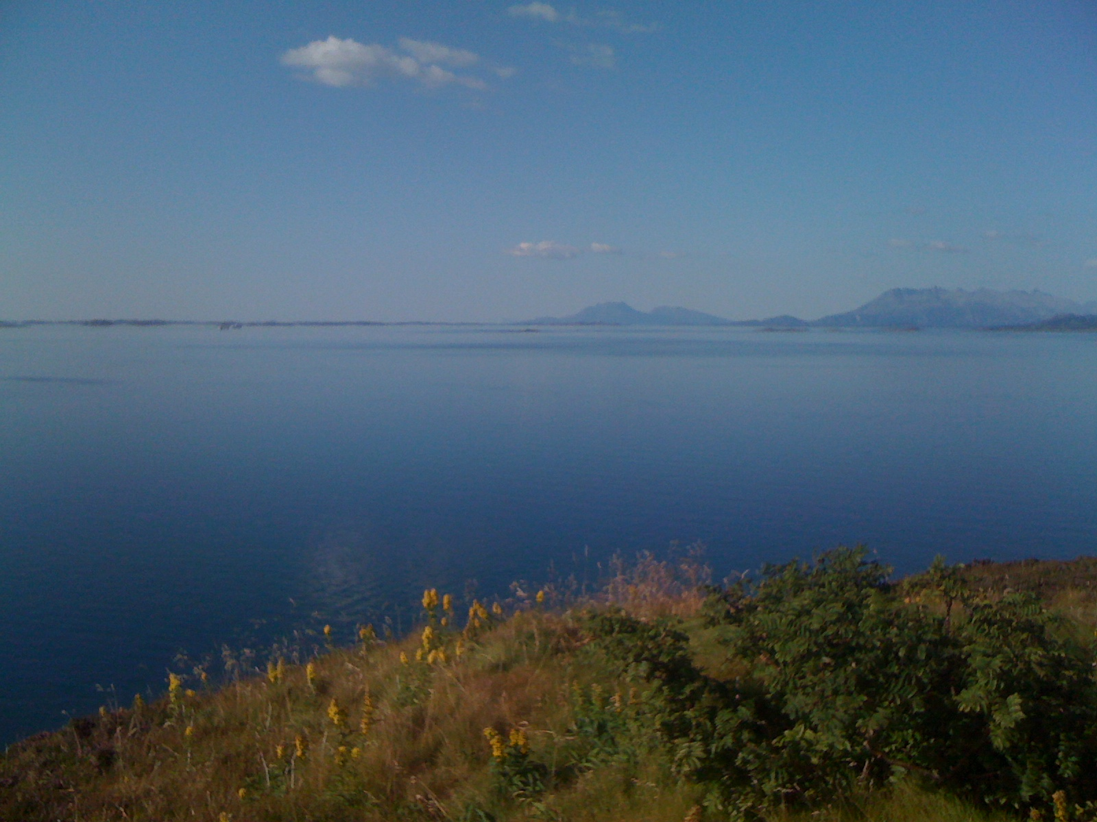 View from Vomma (Vambarholm).